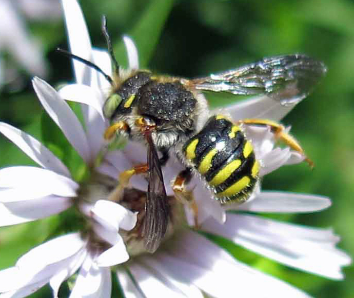 Wool Carder Bee Anthidium oblongatum male, Leamington, Ontario, Canada.